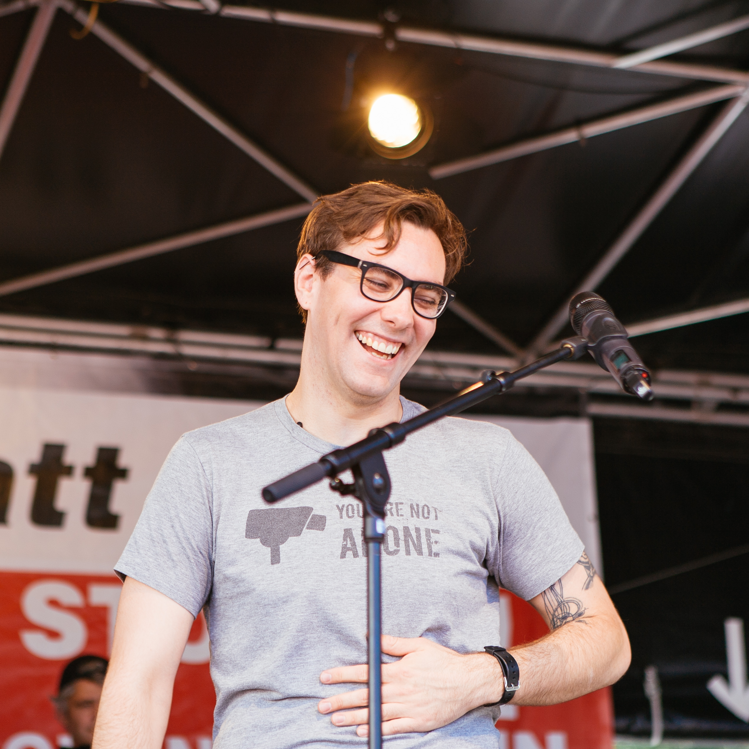 Depicted person: Jacob Appelbaum